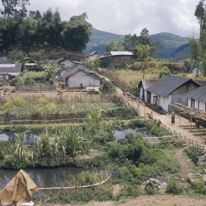 Village view, Dieng Plateau